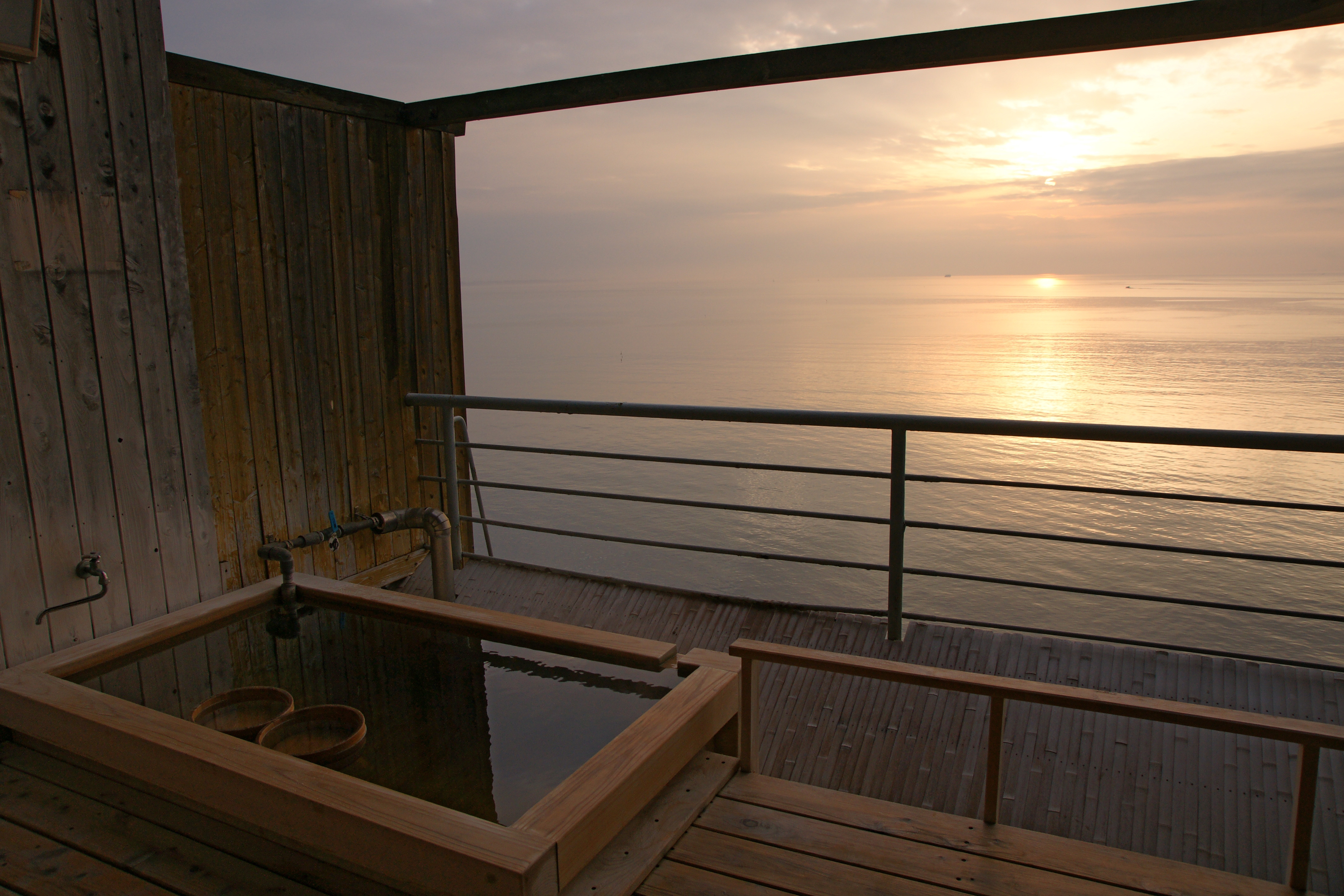 Beppu Bay from Beppu Onsen, Beppu, Oita prefecture, Japan